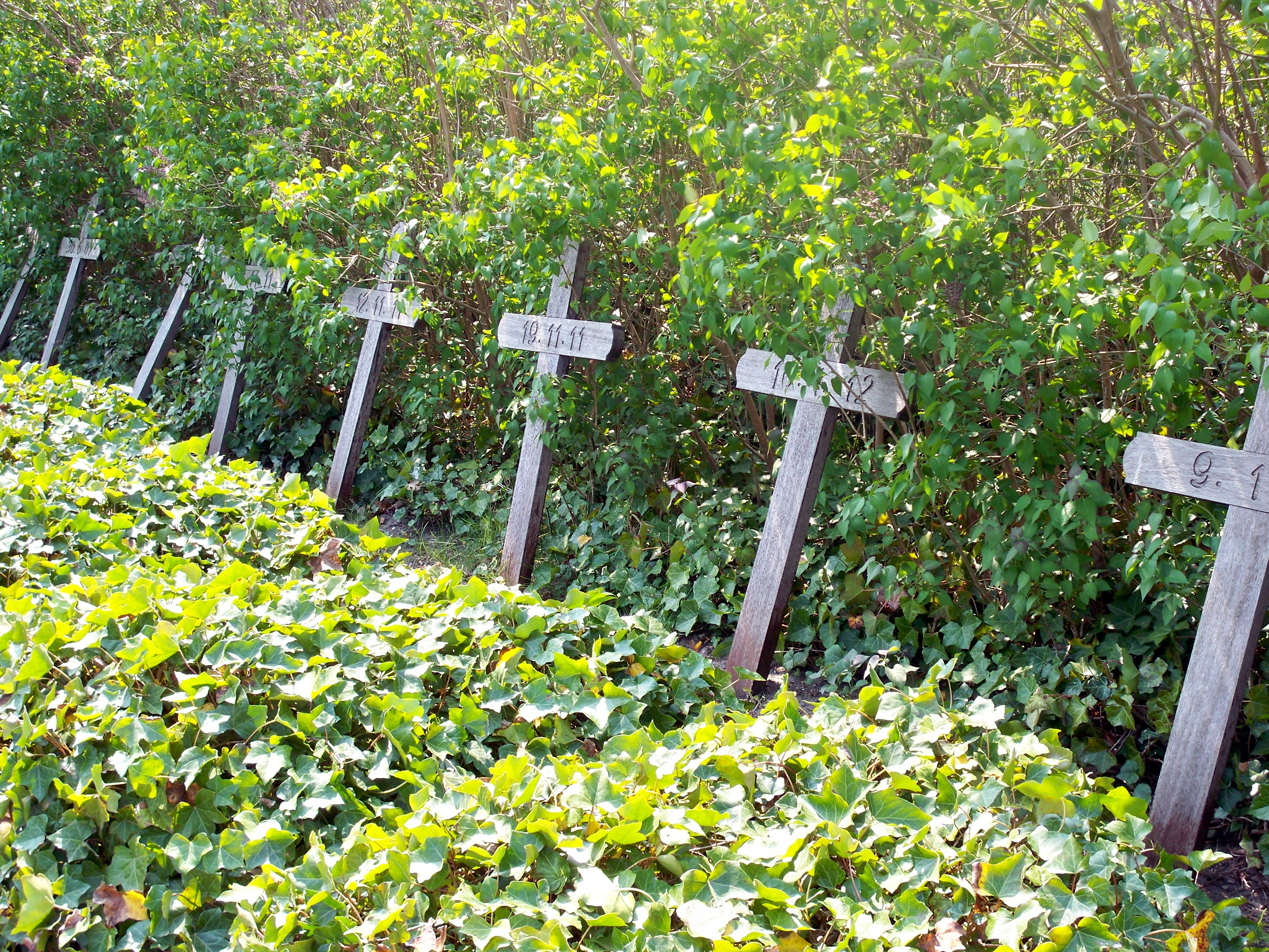 Cemetery for unknown sailors in Nebel on Amrum, germany, detail